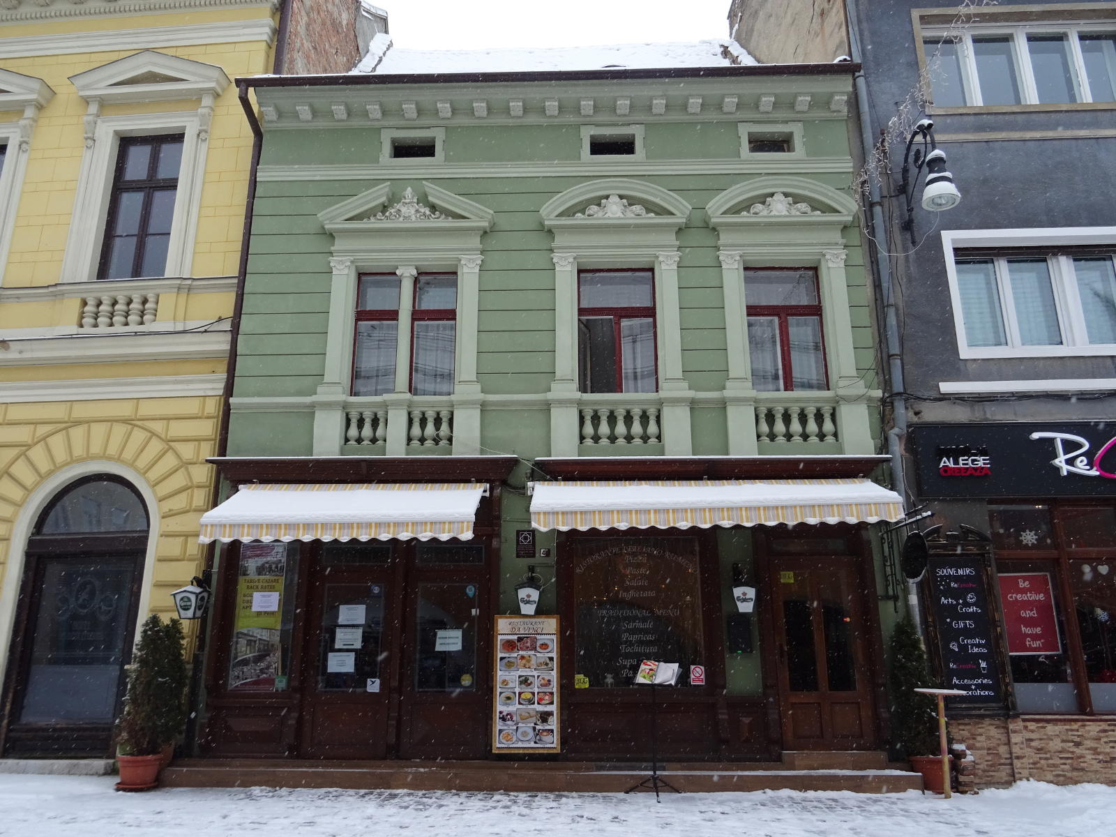 Apollonia Hirscher street, Brasov; house number 4